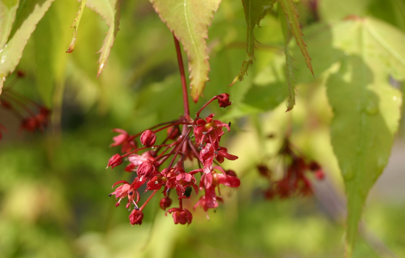 Acer palmatum: Flowers